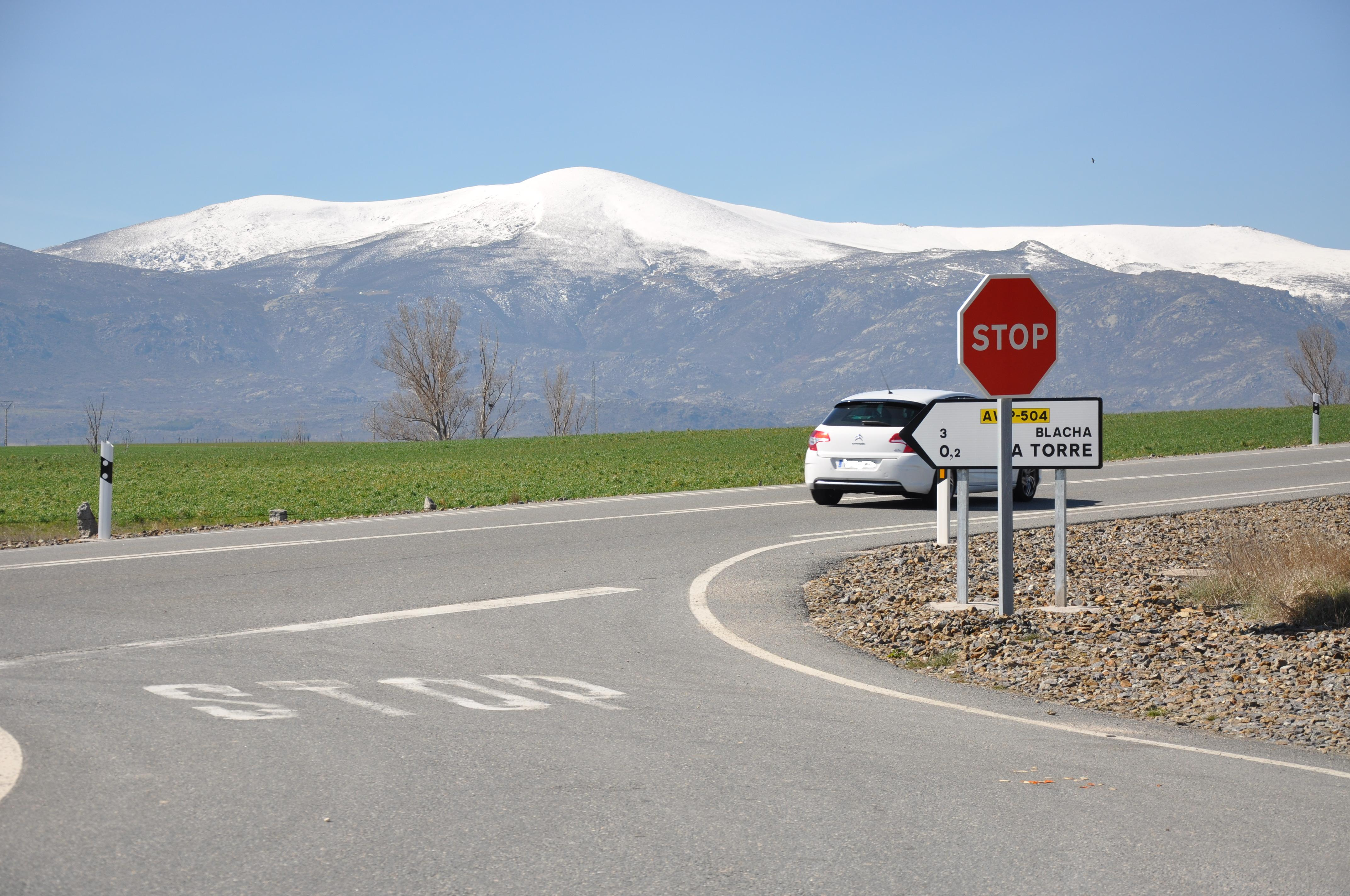 Stop sign with the Serrota the background, La Torre, Ávila, Spain